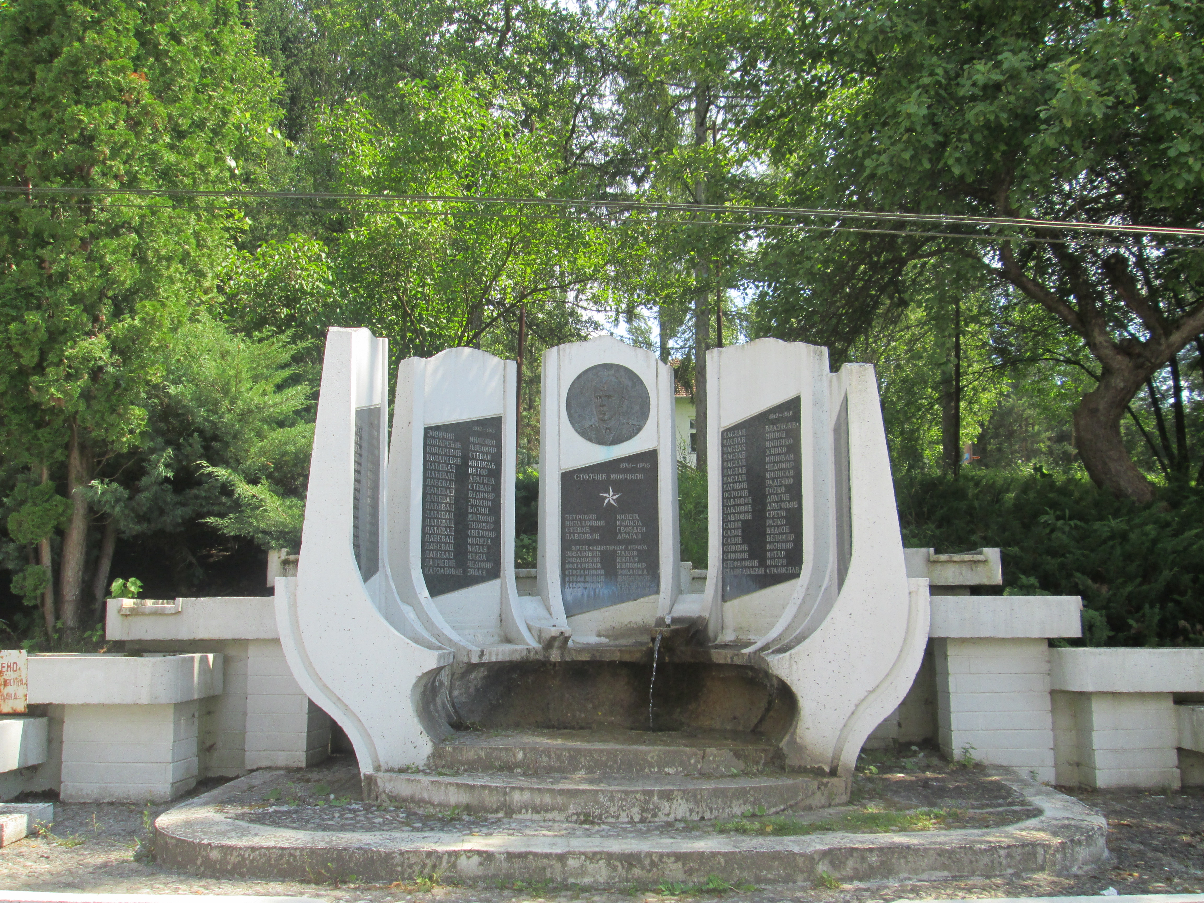 Monument to fallen locals in Balcan wars, WW1 and WW2, Donja Dobrinja Српски (ћирилица): Споменик палим борцима у Балканским ратовима, Првом и Другом светском рату, Доња Добриња